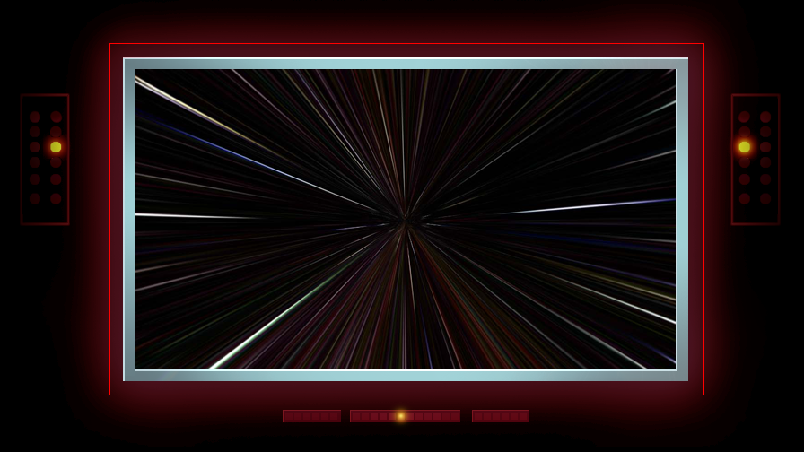 Star Fleet-style monitor showing passage through subspace. Viewscreen dimensions roughly proportional to the monitors shown in Star Trek TOS, though the warp effect in this image more closely approximates the motion trails employed in TNG. This image contains a modified version of this file by Björn S.